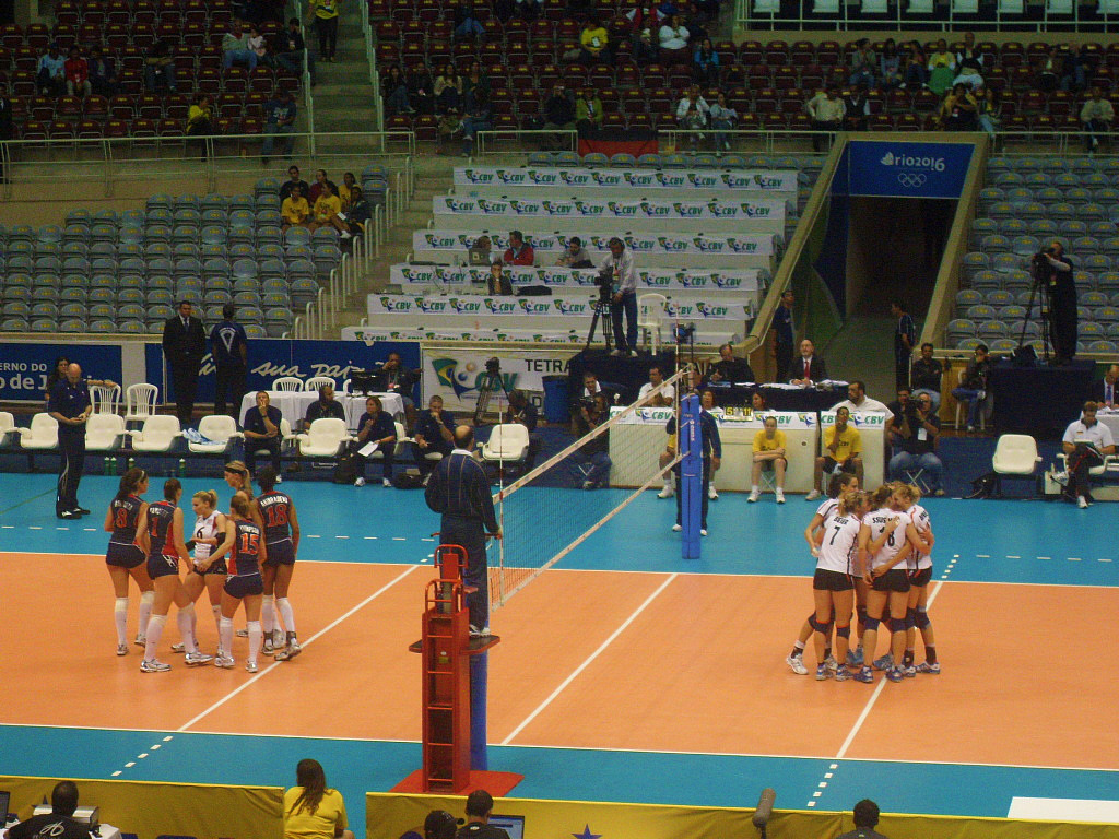 match USA vs. Germany at the Volleyball World Grand Prix 2009 Rio de Janeiro